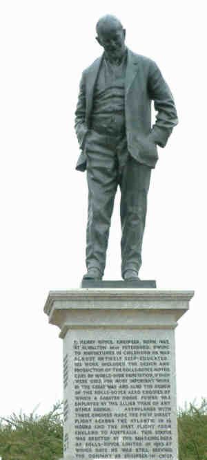 Statue of Sir Frederick Henry Henry Royce, located at Moor Lane HQ, Derby.